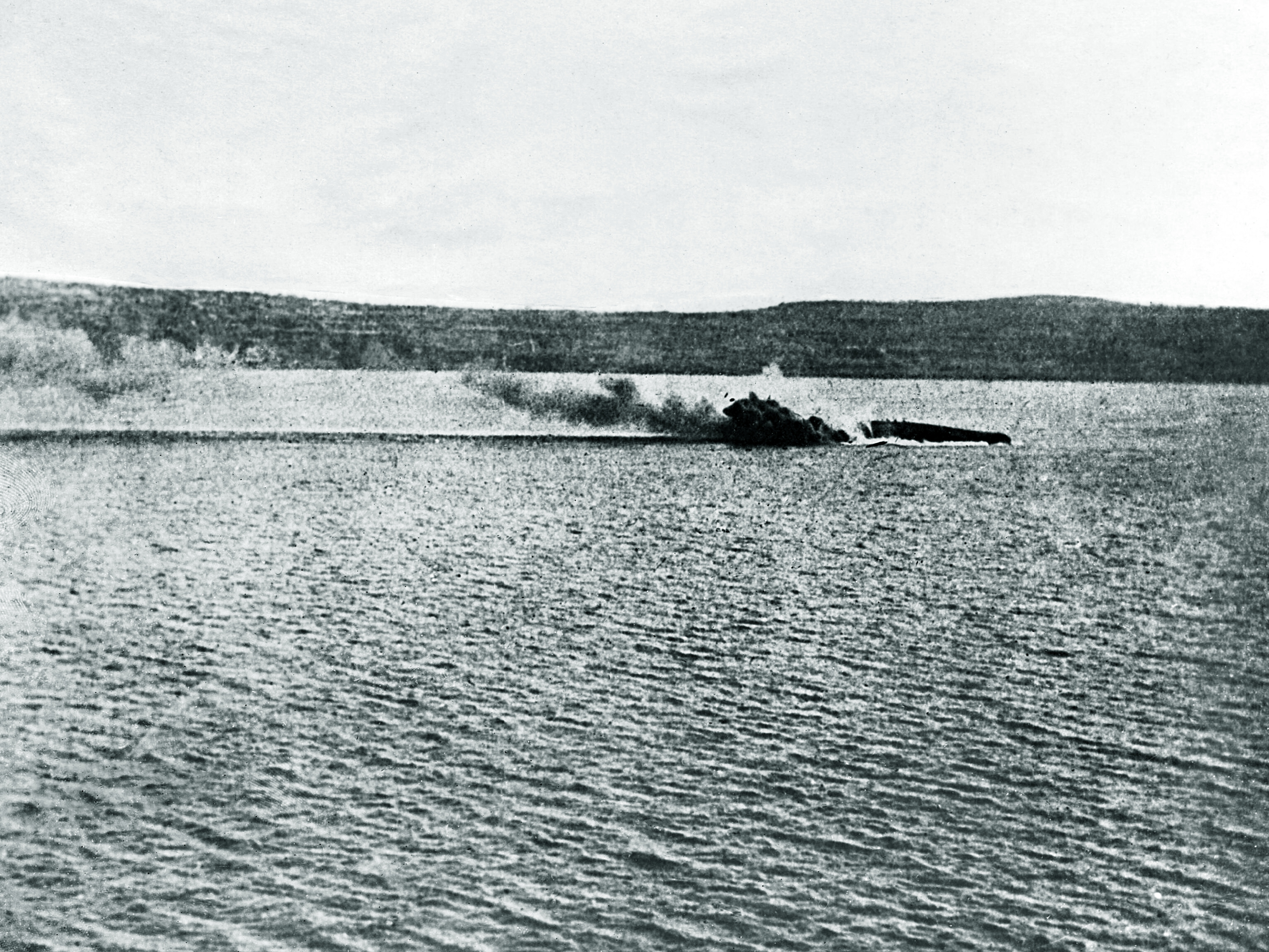 The French battleship Bouvet capsizes, killing more than 600 men, after striking a mine in the Dardanelles during the Battle of Gallipoli. A caption in L'illustration states that the photograph was taken from an English ship.